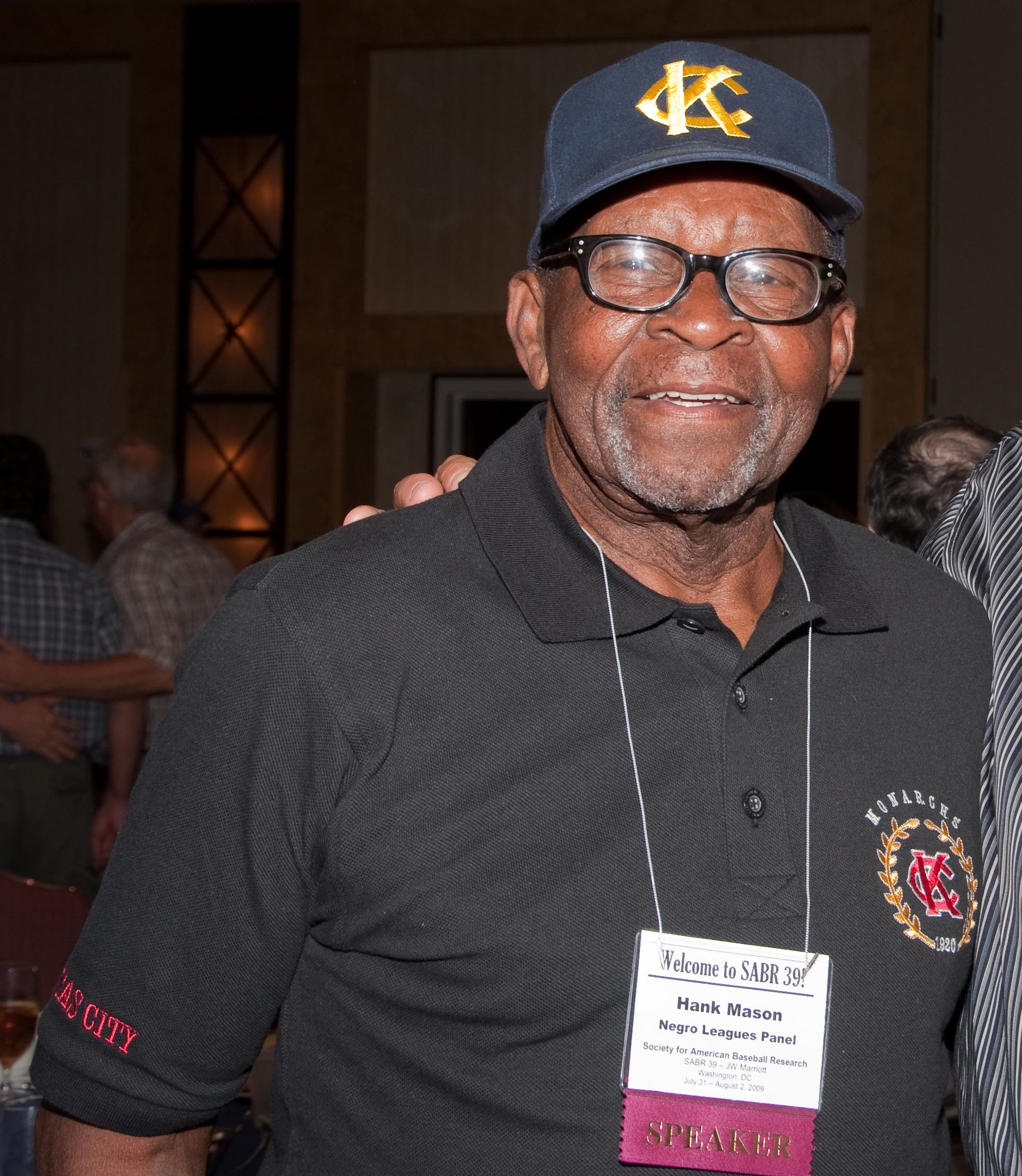 Former Philadelphia Phillies pitcher Hank Mason at a SABR convention, 2009